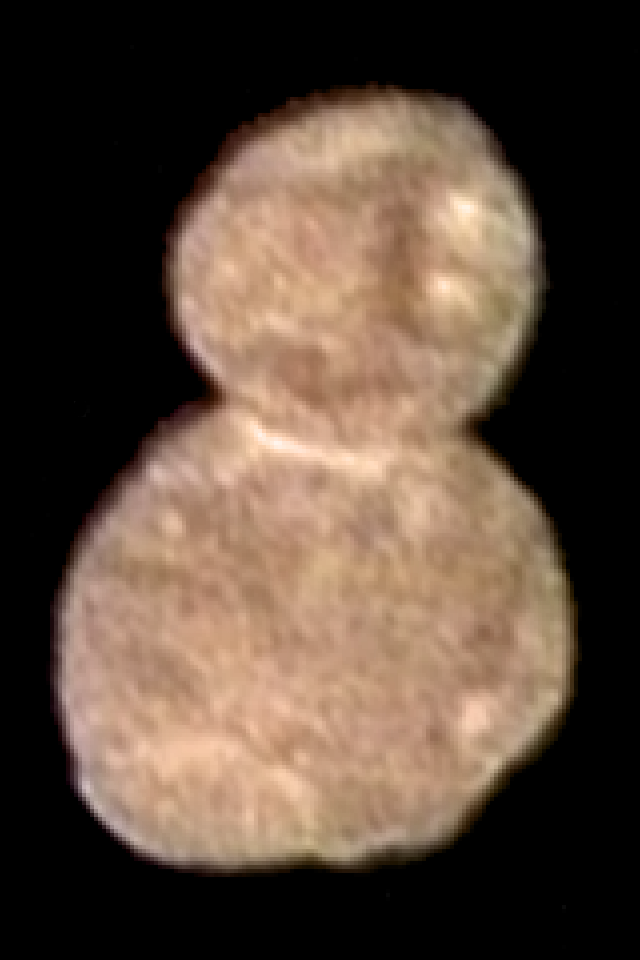 Composite color view of object 2014 MU69, also known as Arrokoth and formerly known as Ultima Thule, taken by the New Horizons spacecraft